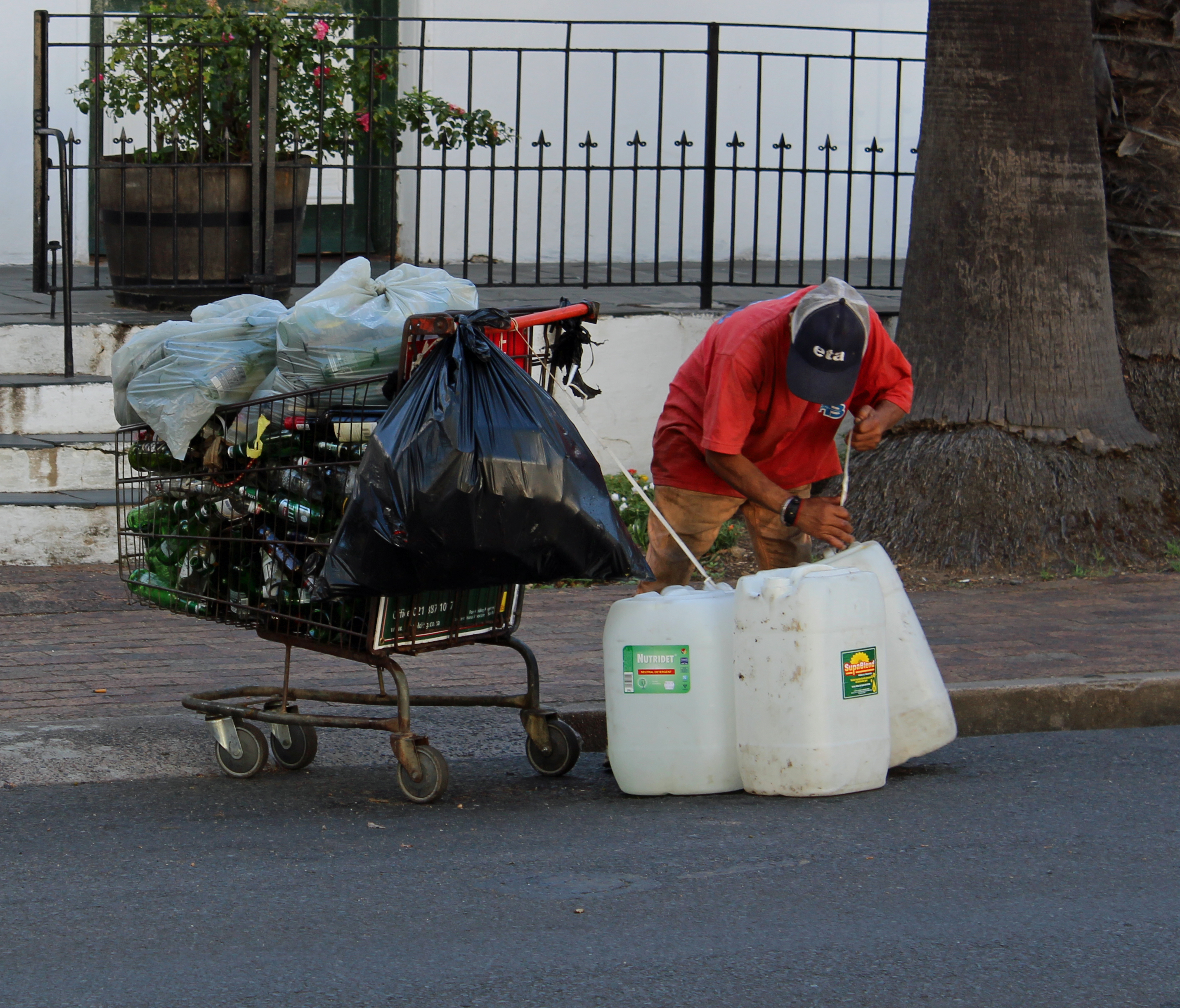 Bergie (homeless person) collecting recyclables outside Morkel House in Ryneveld Street, Stellenbosch, South Africa